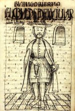 Fernando Torres de Portugal y Mesía